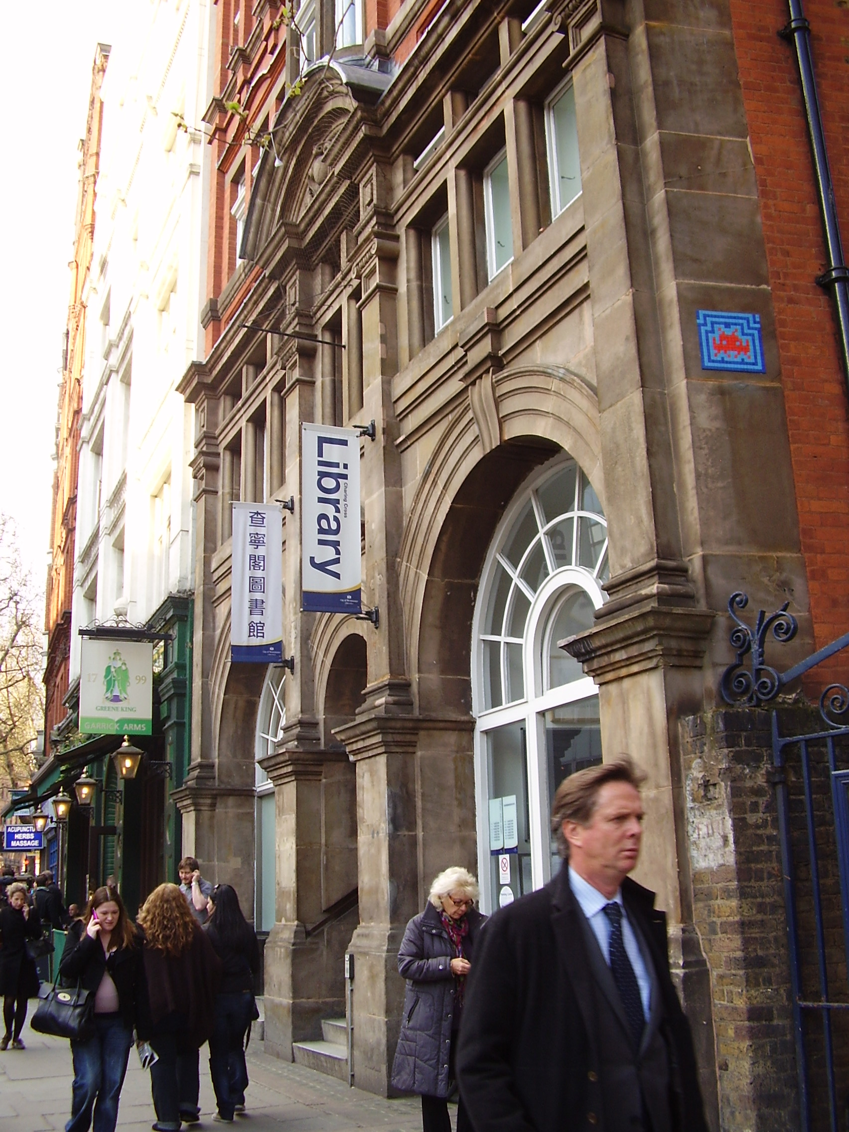 Charing Cross Library (T: 查寧閣圖書館, S: 查宁阁图书馆, P: Chánínggé Túshūguǎn)